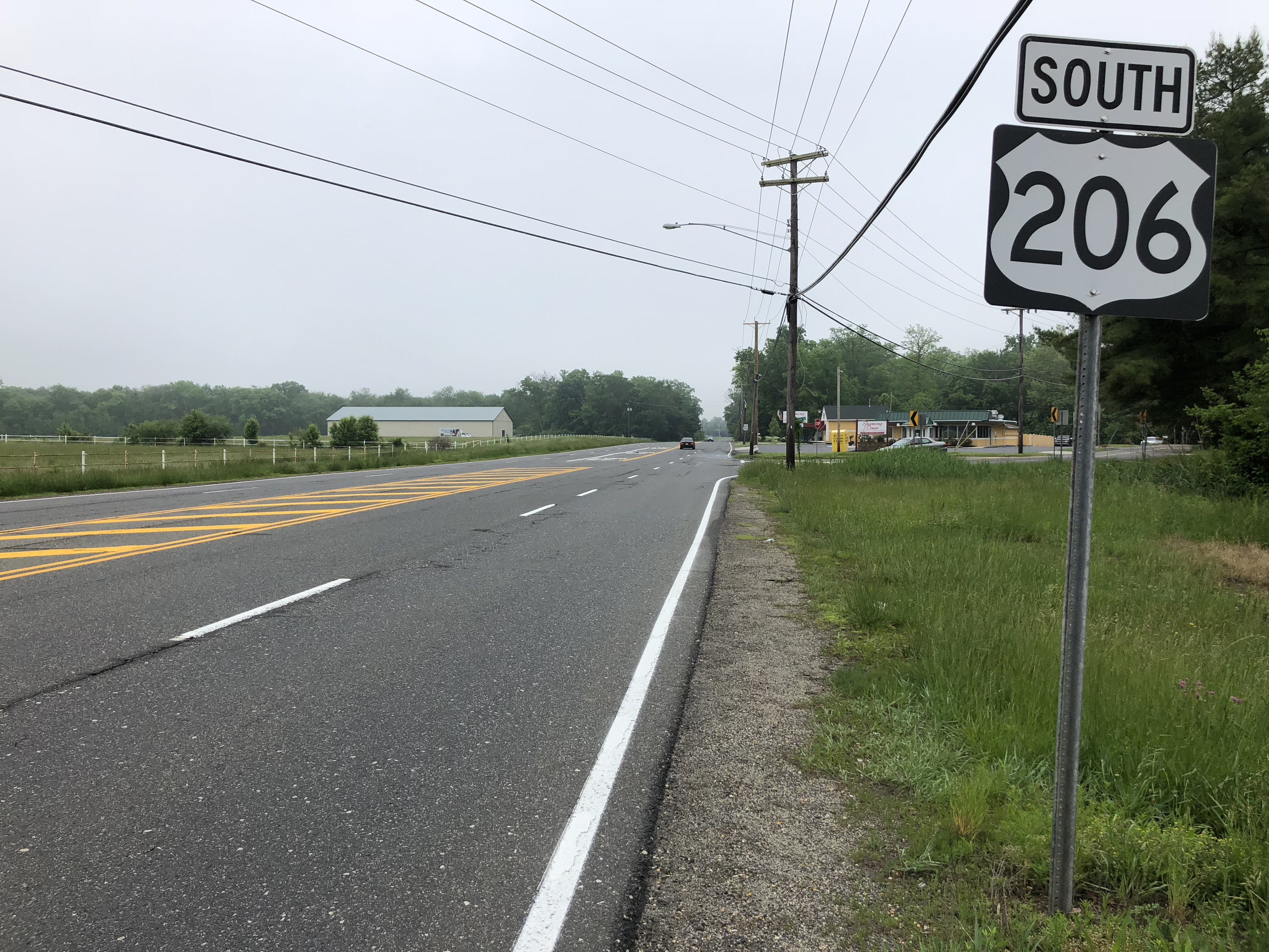 View south along U.S. Route 206 at Burlington County Route 648 (Willow Grove Road/Old Indian Mills Road) in Shamong Township, Burlington County, New Jersey